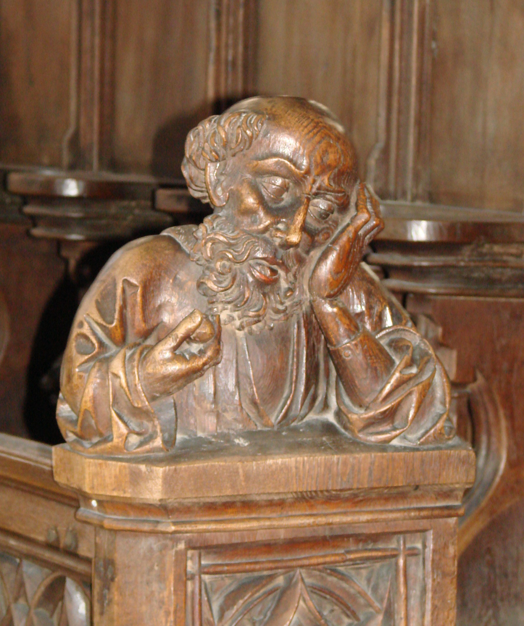 Nördlingen, Germany, St. George's church, woodcraft on a choir chair